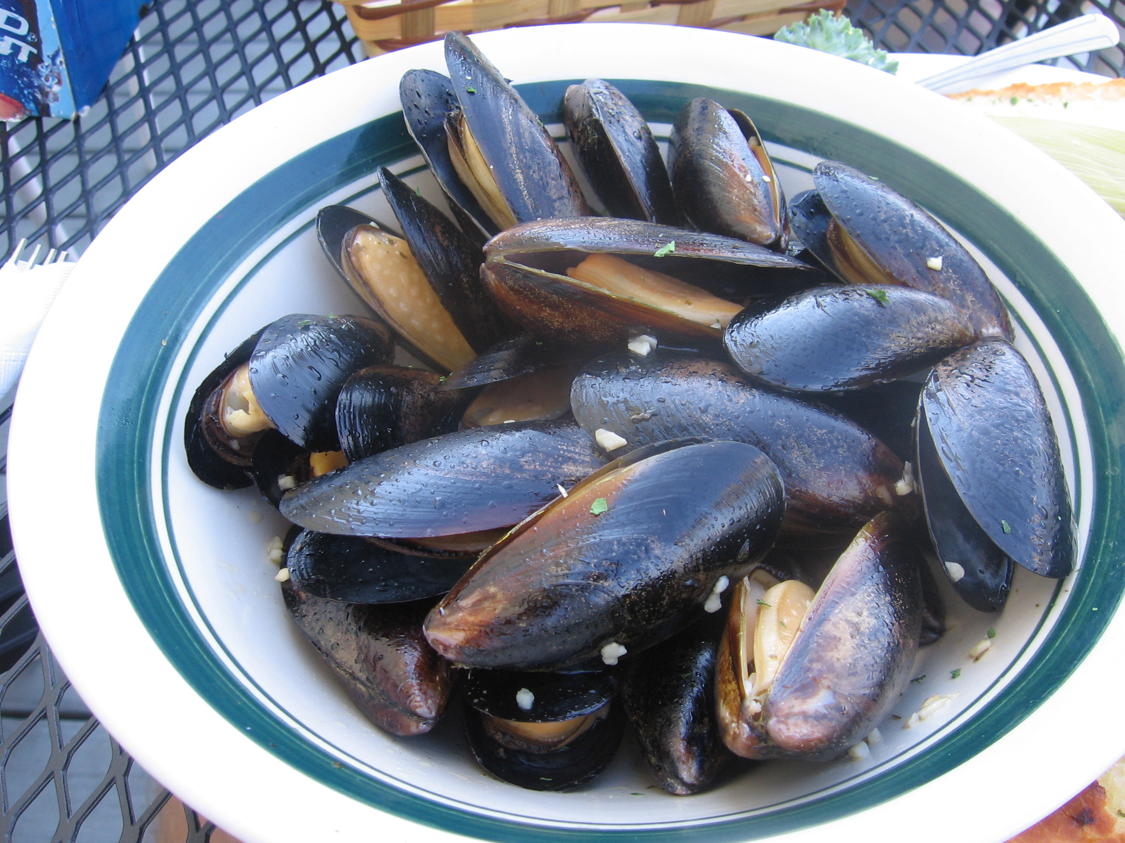 A plate of steamed mussels in garlic butter